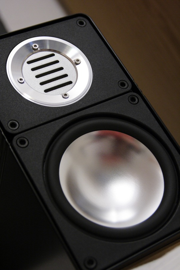 Elac 310.i Jet Loudspeaker, also named "Little Wonder" because of its great sound for its small size.